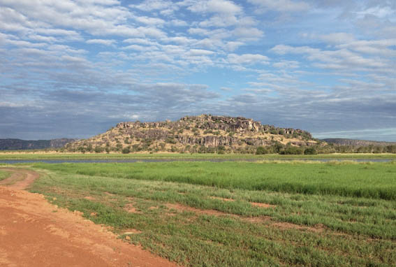 Injalak Hill in Gunbalanya, photographed in April 2014